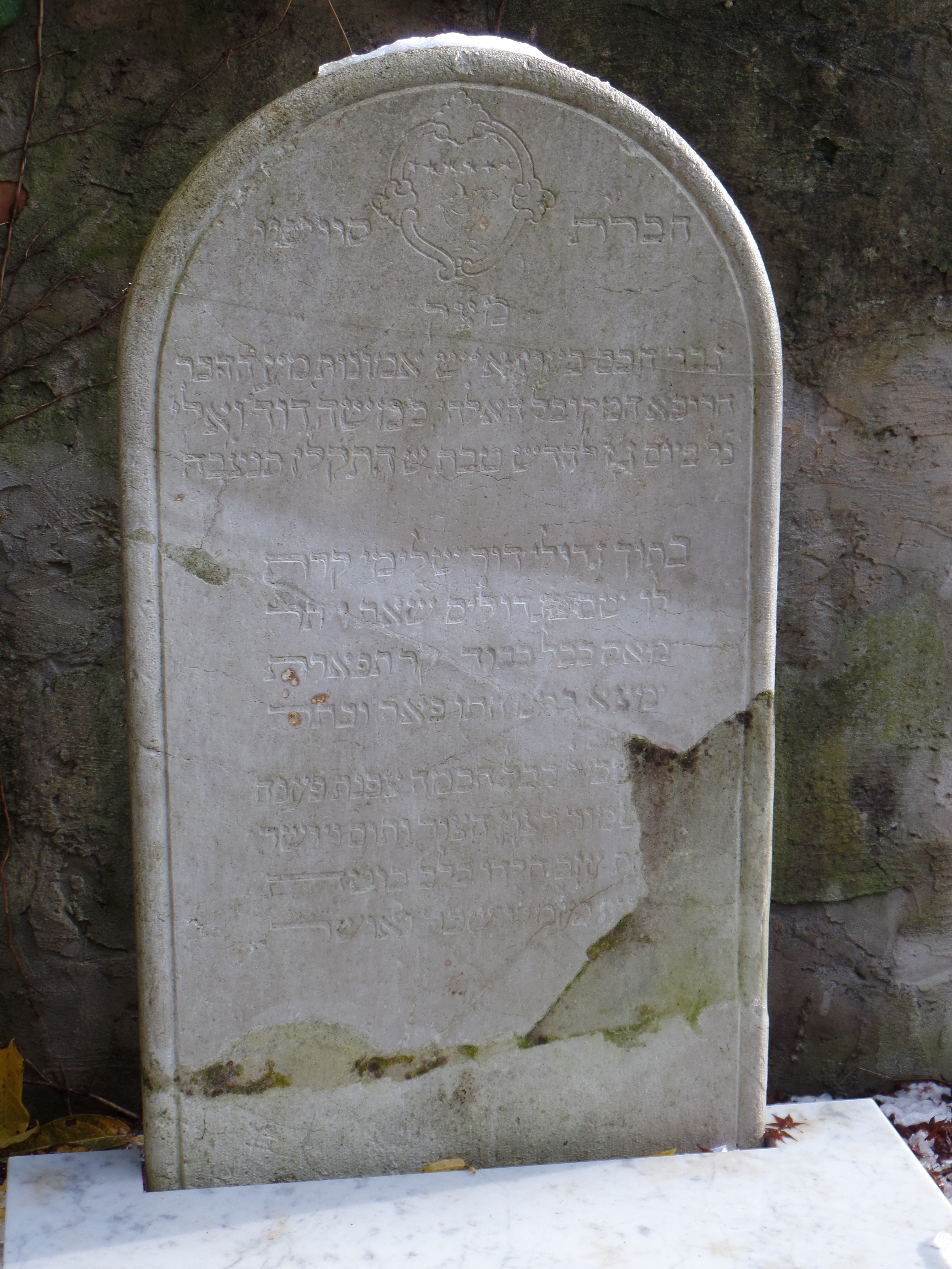 Rabbi Moses David Valle (1697-1777) Tomb in old Jewish Cemetery in 24 Via Domenico Campagnola St. Padova Italy